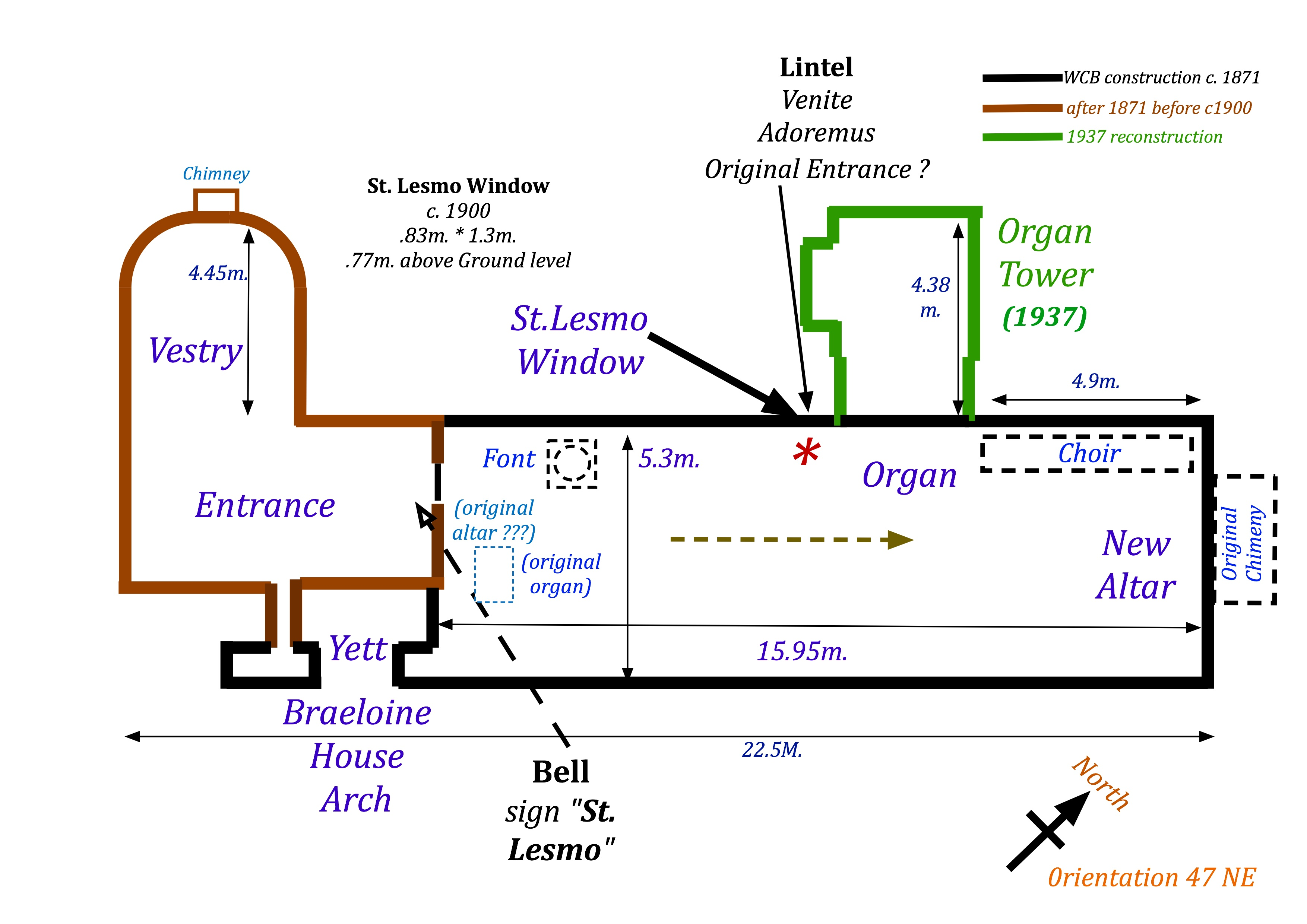 outline drawing St Lesmo Chapel